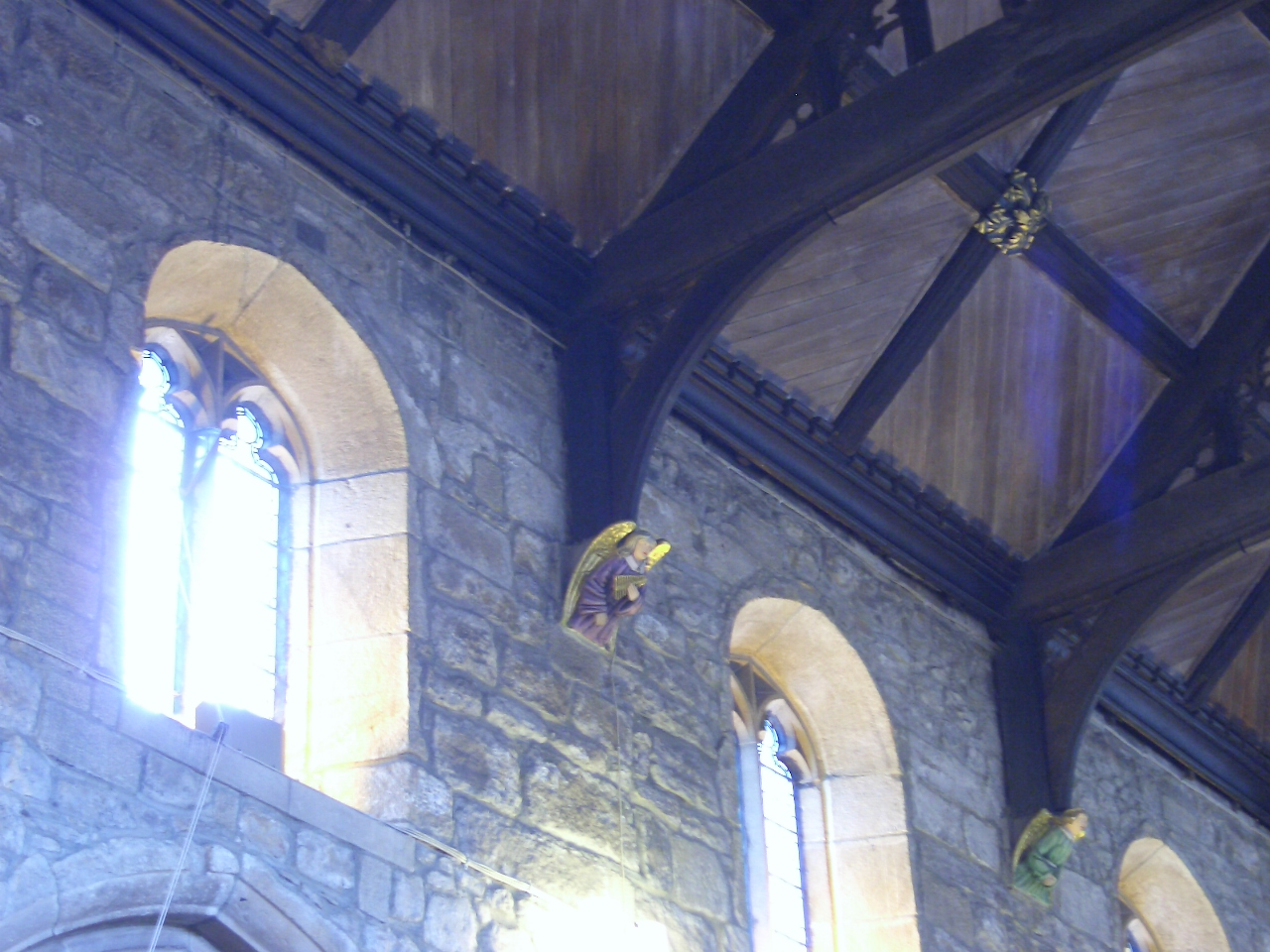 My photo of the interior of bradford cathedral